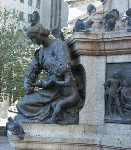 recadrage par PRA de Jeanne_Mance_statue,_Place_d'Armes,_Montreal_2005-10-21.JPG (439KB, MIME type: image/jpeg) original intitulé :Jeanne Mance statue, Place d'Armes, Montreal. Photo by User:Gene.arboit /This file is licensed under the Creative Commons Attribution ShareAlike license versions 2.5, 2.0, and 1.0